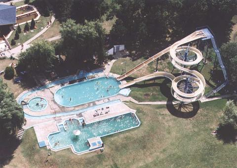 Csokonyavisonta, Hungary, aerial photography